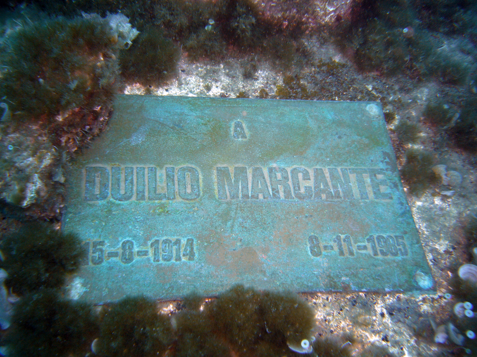 Commemorative plate placed on the Cristo degli abissi base after Duilio Marcante death.